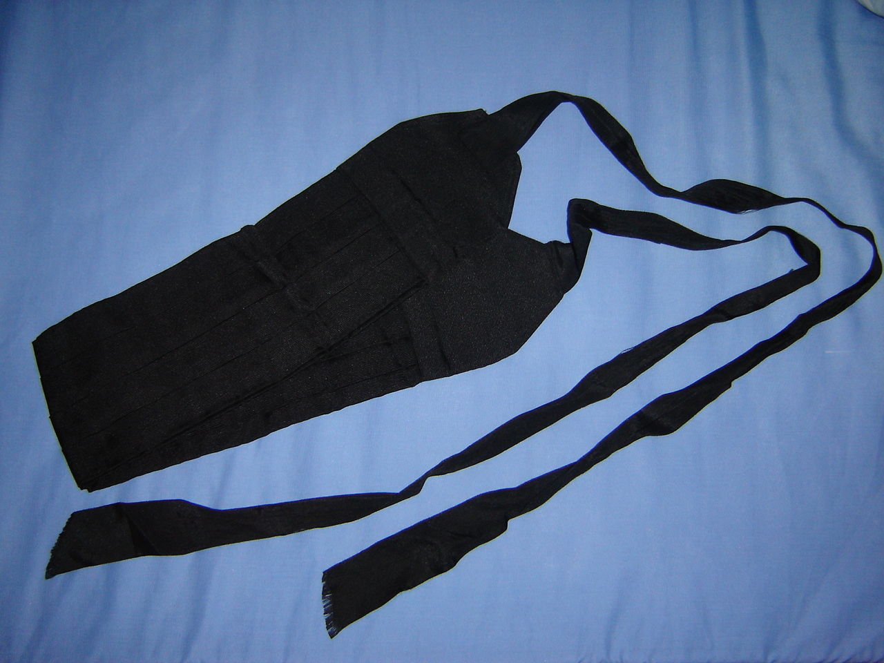 A pure silk ottoman cummerbund with grosgrain ribbon ties; made c. 1950s.